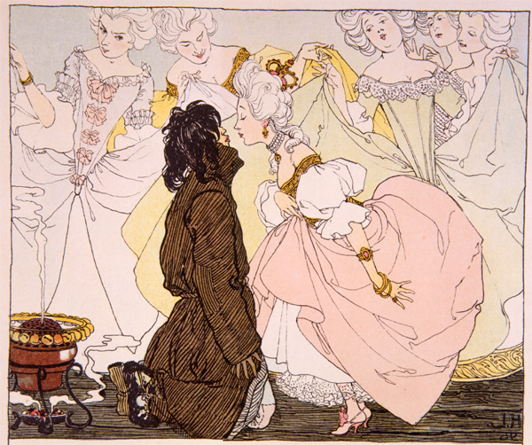 Illustration by Heinrich Lefler to: Hans Christian Andersen, Wien 1897